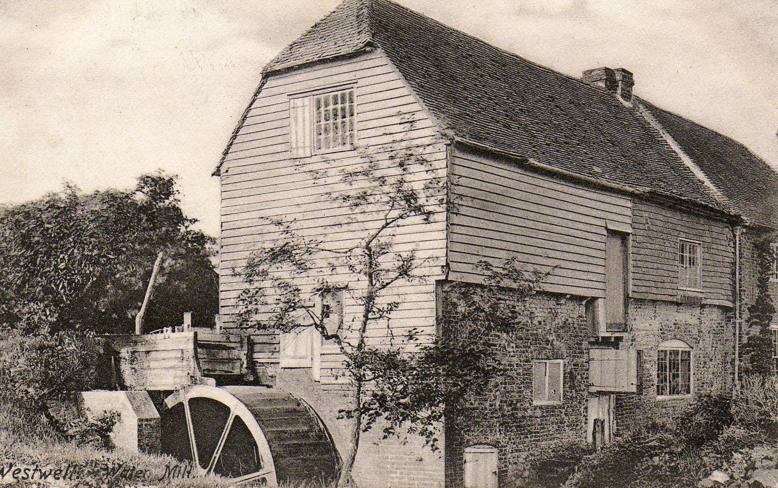 The watermill at Westwell. Postcard datestamped 20 August 1903